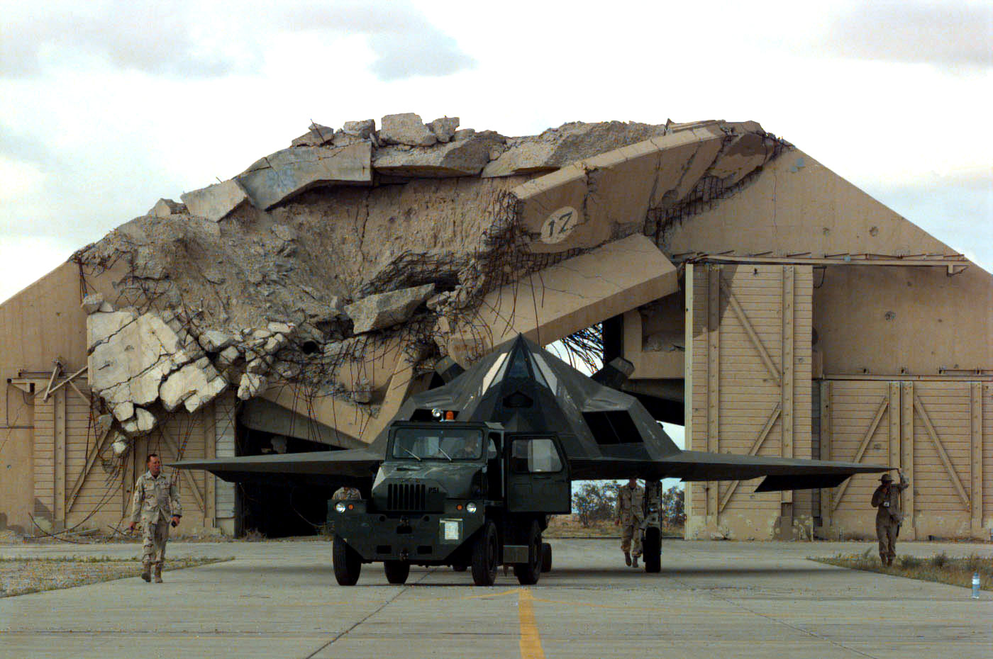 A U.S. Air Force F-117A Nighthawk is towed in front of a destroyed aircraft shelter at Ahmed Al-Jaber Air Base, Kuwait, on March 8, 1998. F-117A Nighthawk stealth fighters have been deployed to Kuwait in support of Operation Southern Watch which is the U.S. and coalition enforcement of the no-fly-zone over Southern Iraq. The Nighthawk is attached to the 8th Fighter Squadron, 49th Fighter Wing, Holloman Air Force Base, N.M. The aircraft shelter was destroyed during the Gulf War.